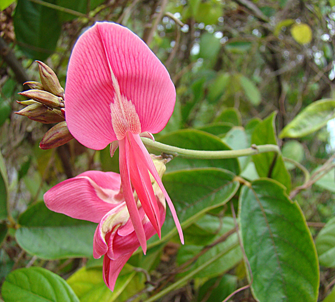 A vine native from southern Nicaragua to the Amazon Basin. Photo from the San Juan River area in the former. In context at